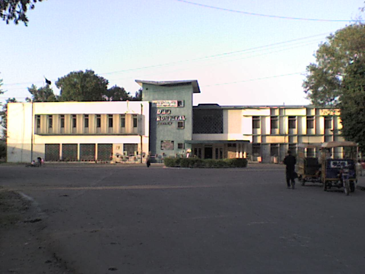 DHQ Jhelum